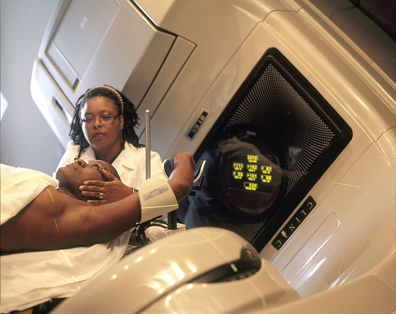 Title Woman Prepared for Radiation Therapy Description An African-American woman, lying on her back, is being prepared for radiation therapy. Topics/Categories People -- Adult People -- Health Professional and Patient Treatment -- Radiation Therapy Type Color, Photo Source National Cancer Institute